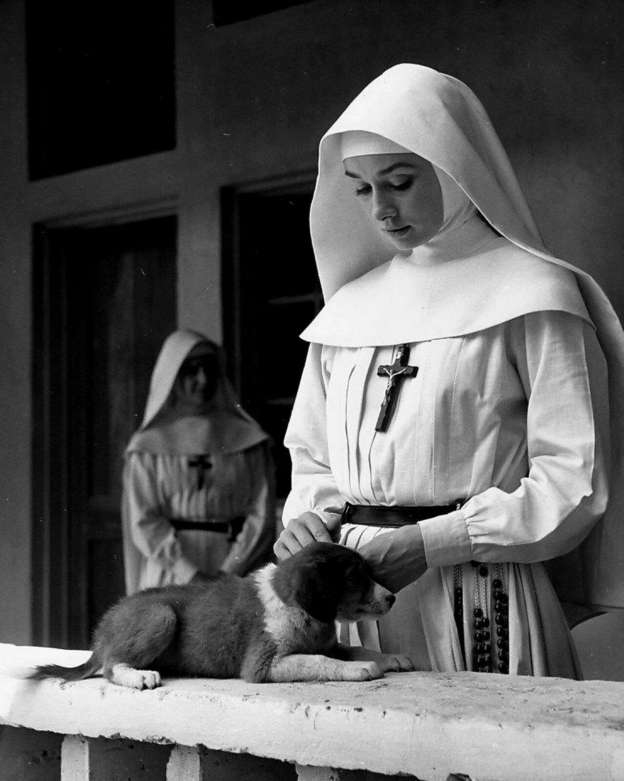 Promotional photo of Audrey Hepburn in the American drama film The Nun's Story (1959).